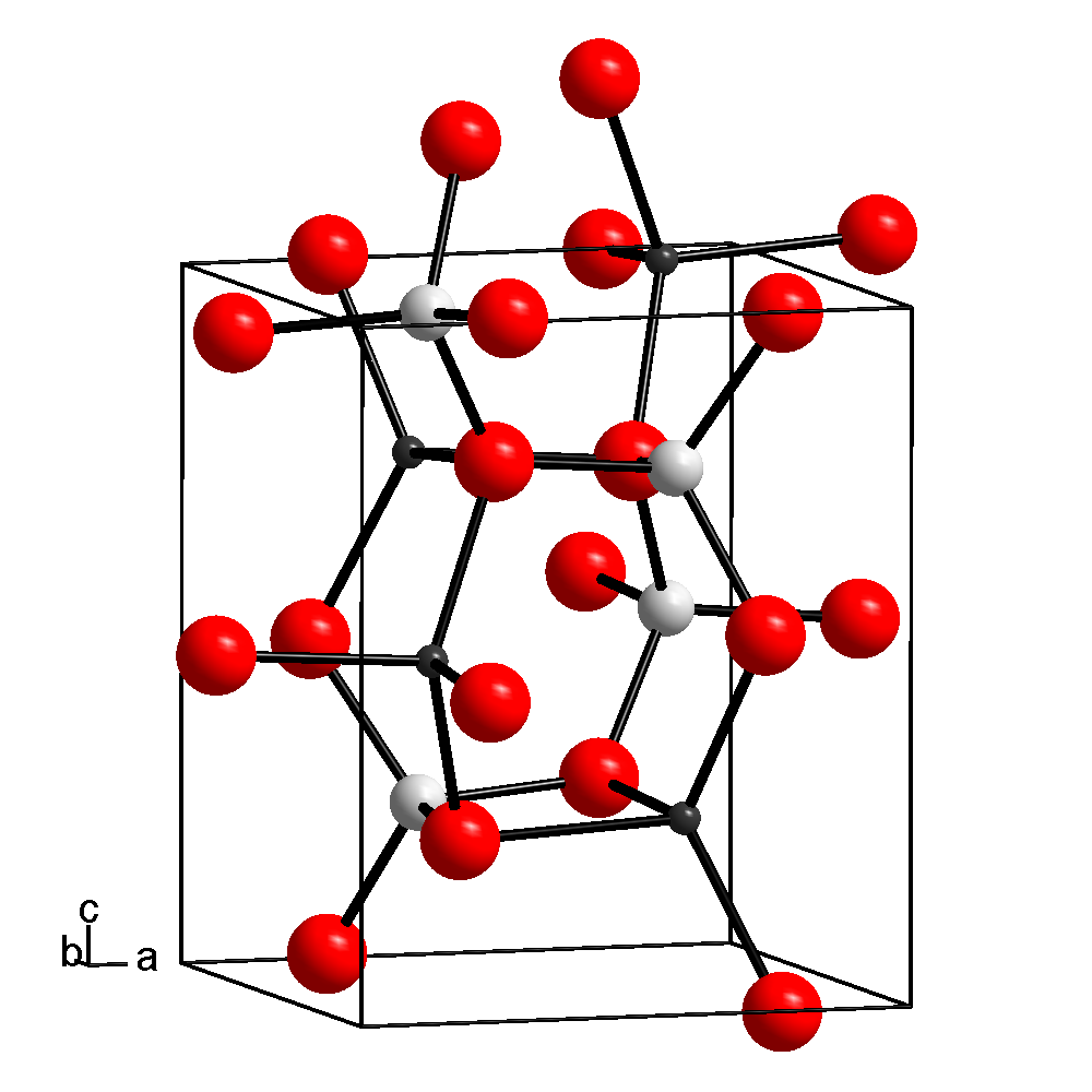 Unit cell of lithium aluminate, LiAlO2. Created using Diamond 4. Structure data from Author(s) Bertaut, E. F.; Delapalme, A.; Bassi, G.; Durif-Varambon, A.; Joubert, J. C. Publication title Structure de g-LiAlO2 Citation Bulletin de la Societe Francaise de Mineralogie et de Cristallographie (72,1949-100,1977) , 88, 103-108 (1965)